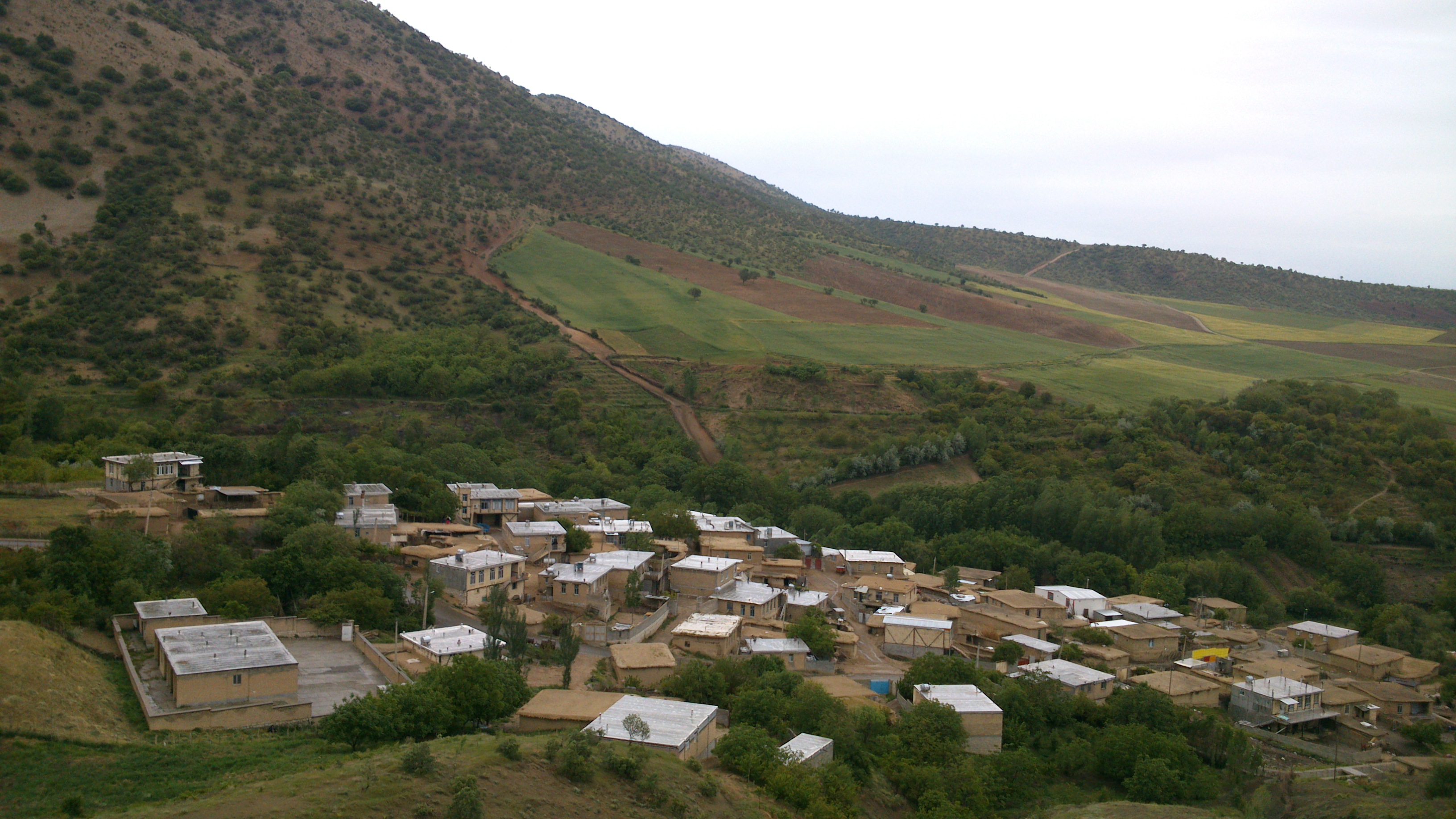 A picture of the village